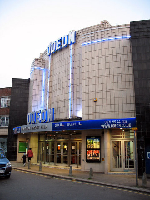 Odeon Cinema, Muswell Hill Road, London N10: designed by George Coles and completed in 1936